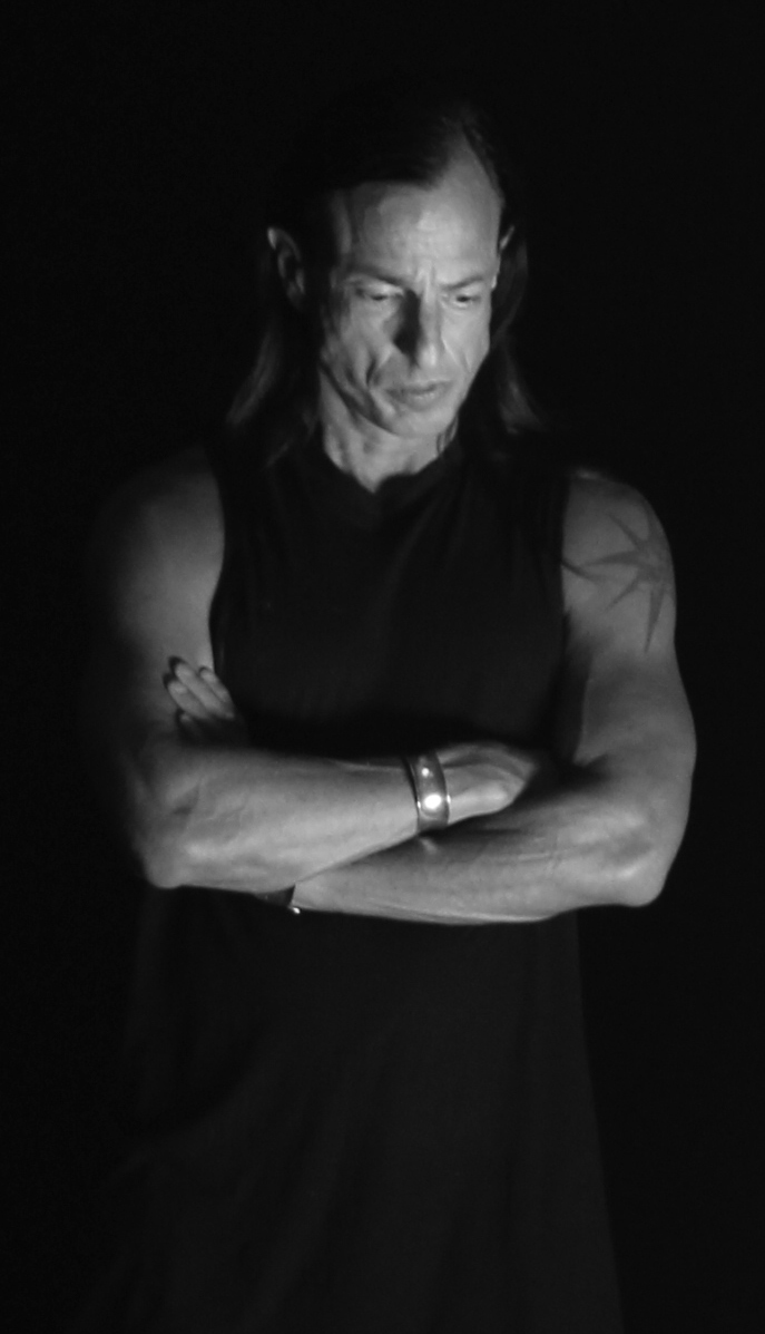 Rick Owens